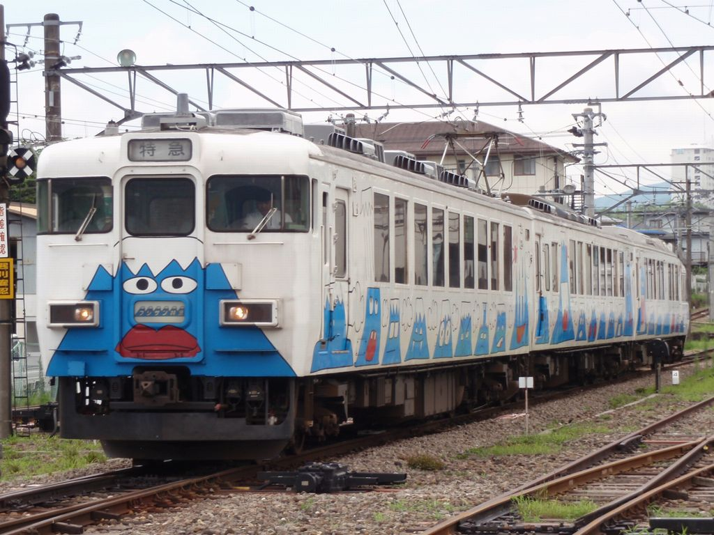 Fujikyuko Co., EMU type 2000 "Fujisan Limited Express"